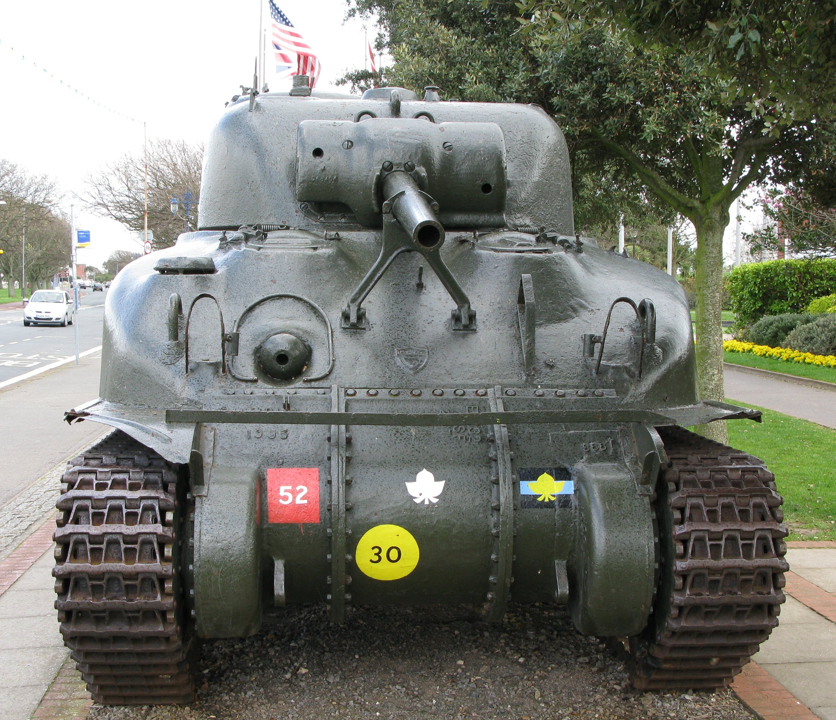 Photo of a canadian built Grizzly sherman taken from the front.